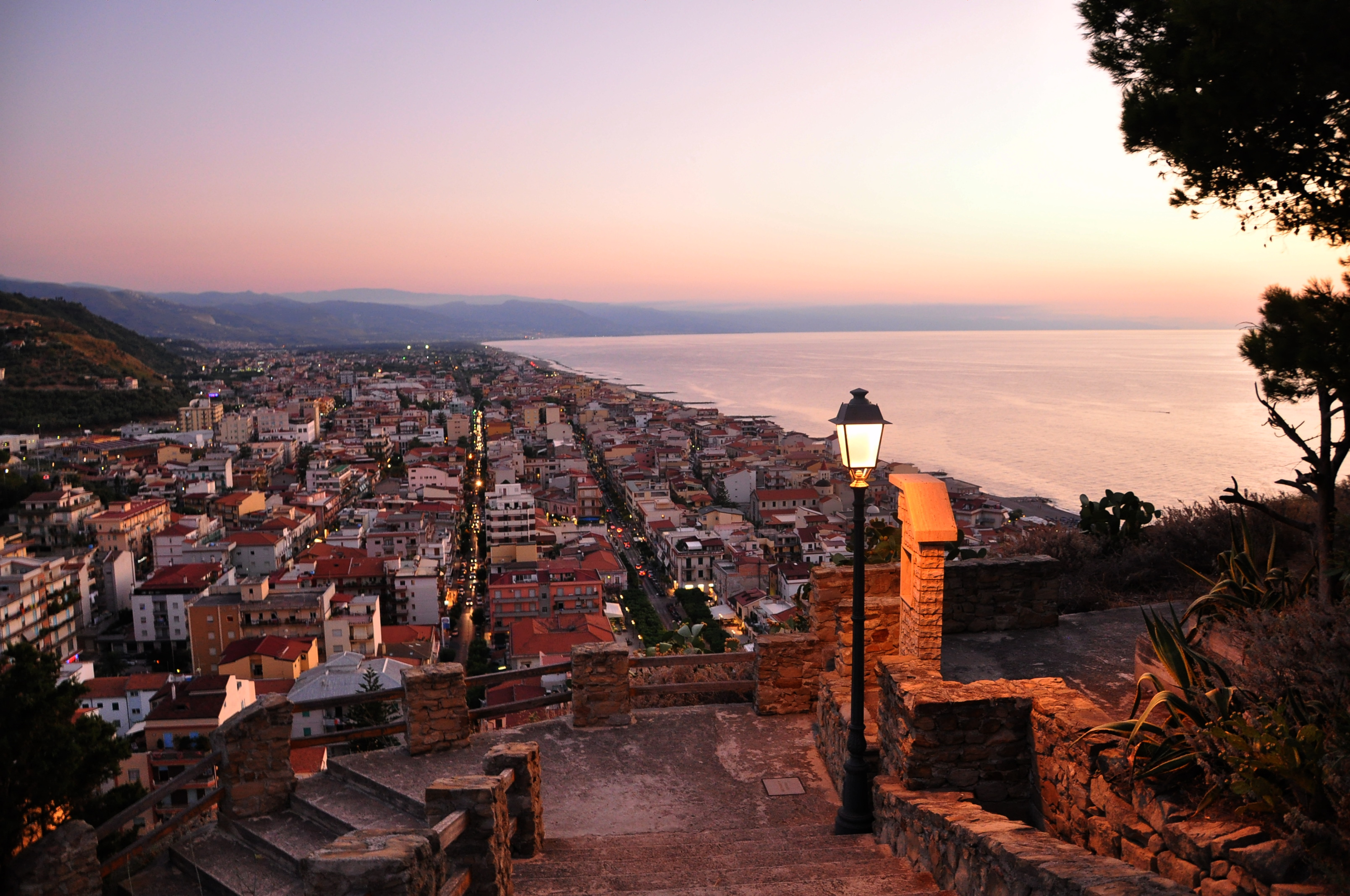 Capo d'Orlando as seen from the headland (Il Capo)